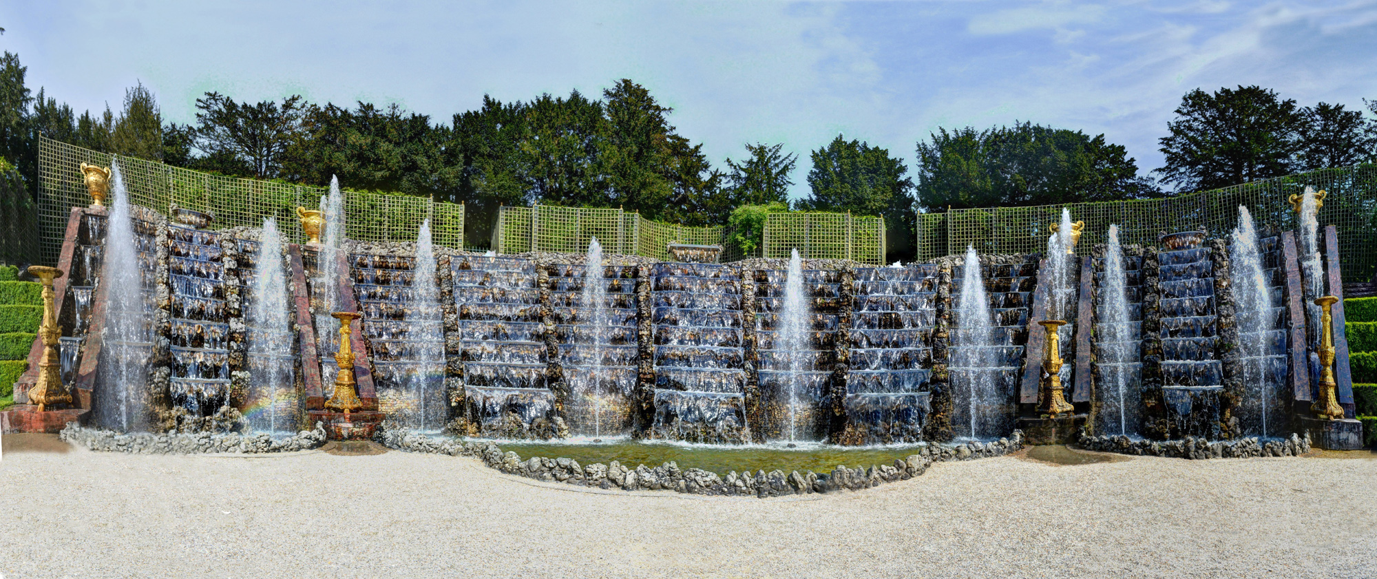 Cascades du Bosquet des Rocailles